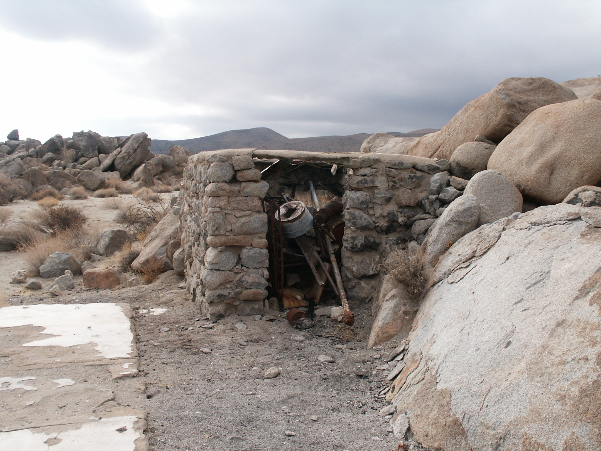 Ruby Lee Mill Site Building